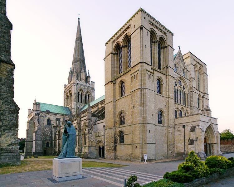 Author: Antony McCallum Chichester Cathedral showing west front, south transept, tower and millennium statue of Saint Richard